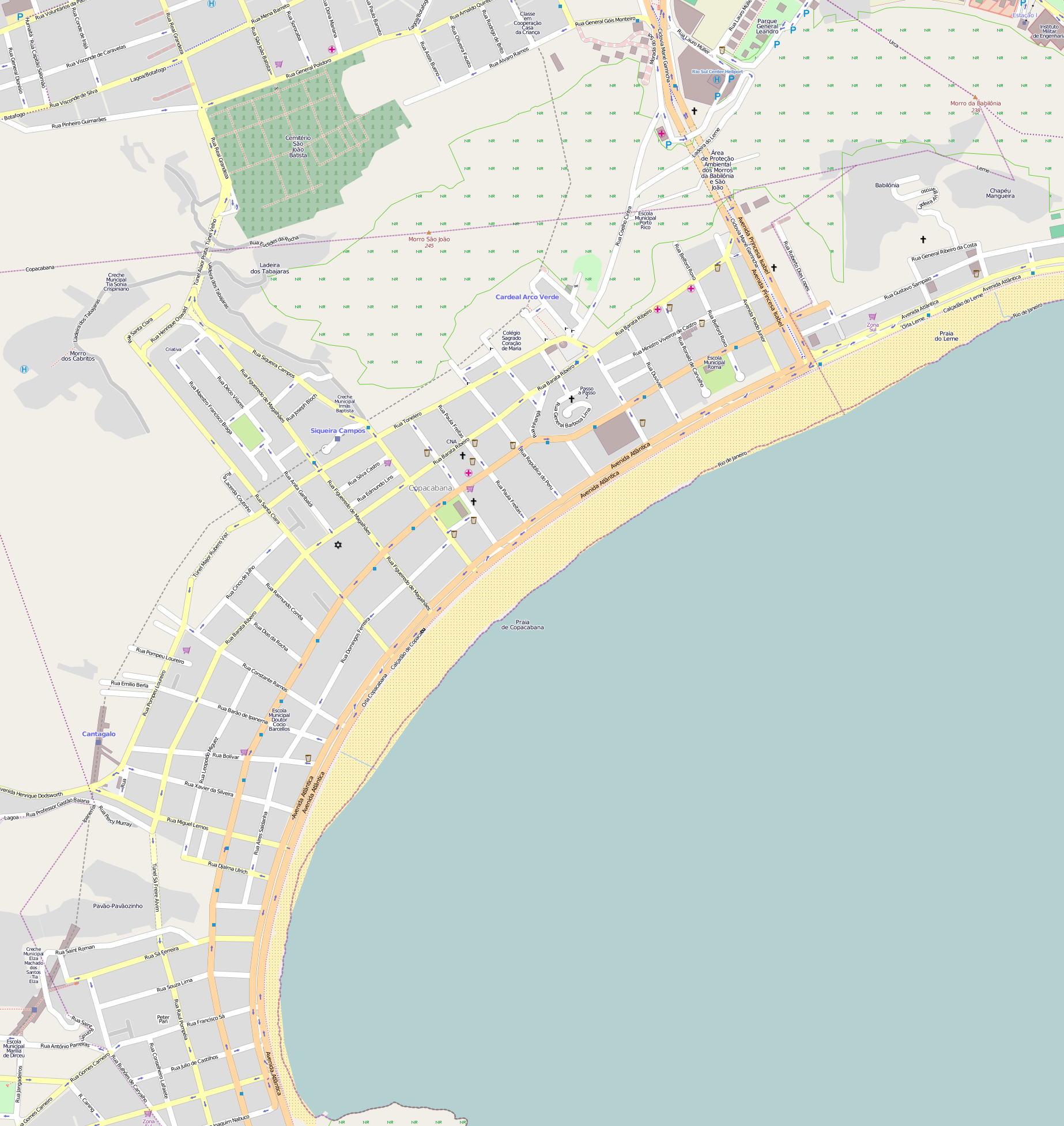 Map of Copacabana Rio de Janeiro Geographic limits of the map: N: -22.95517° S: -22.98595° W: -43.19739° E: -43.16561°